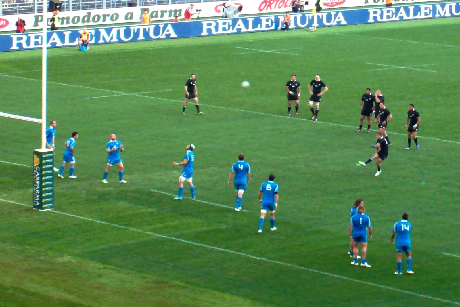 The All Black Aaron Cruden kicks the penalty within the posts for the temporary 3-0 vs Italy